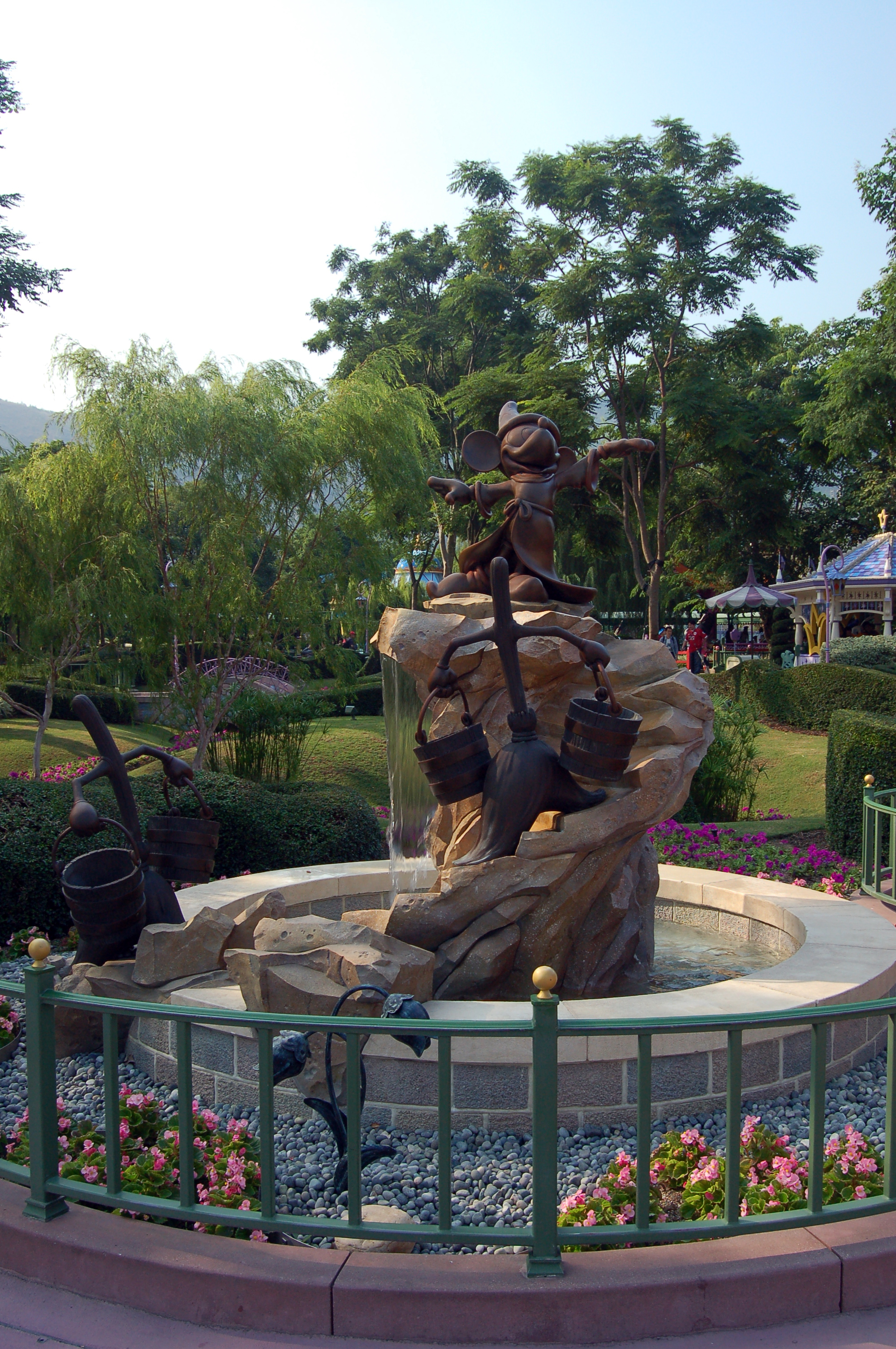 Statue at Hong Kong Disneyland of Mickey Mouse as the Sorcerer's Apprentice in Fantasia, with one of his enchanted brooms.